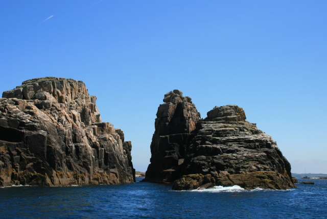 Men-a-vaur With a beach on St Helens visible though the cleft and St Mary's on the horizon to the right. In terms of its height the most spectacular rock in the Isles of Scilly.